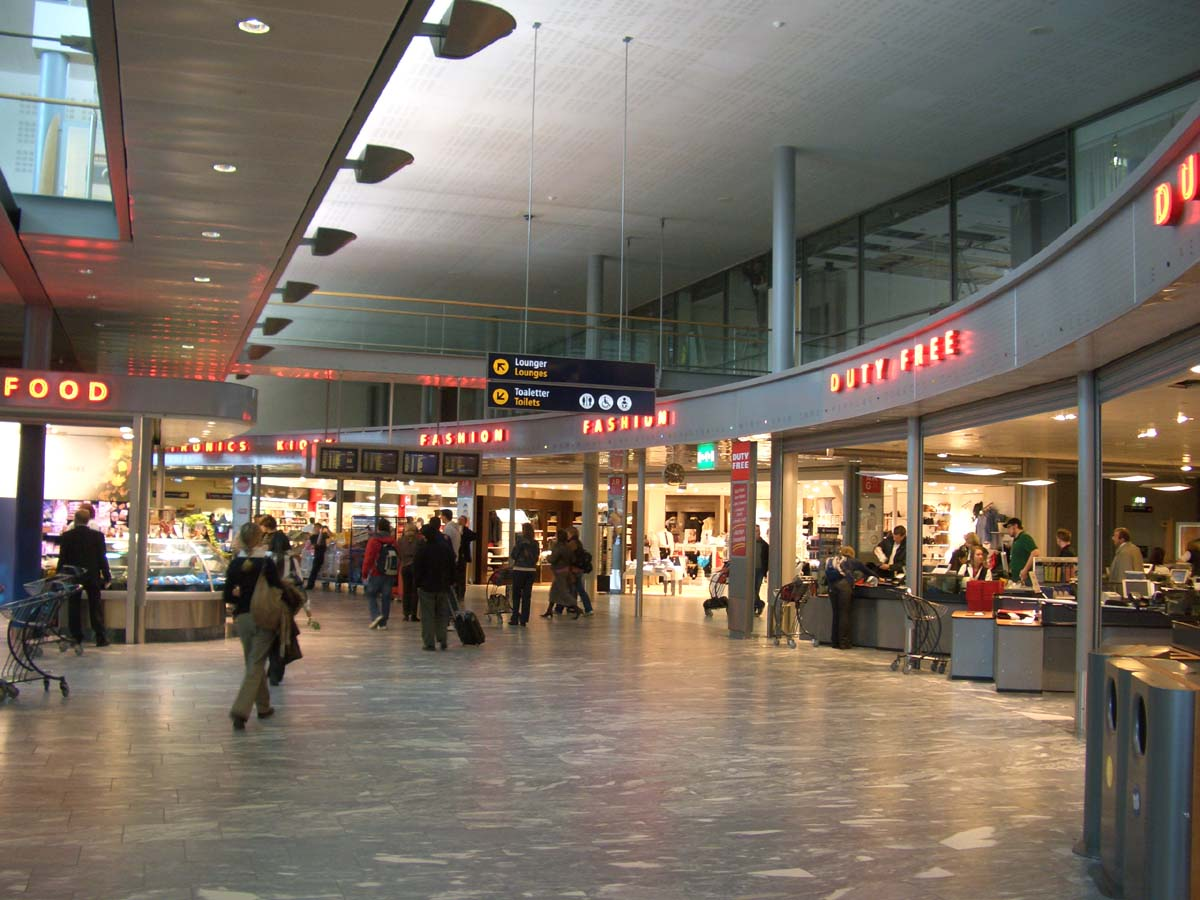 Oslo Airport dutyfree